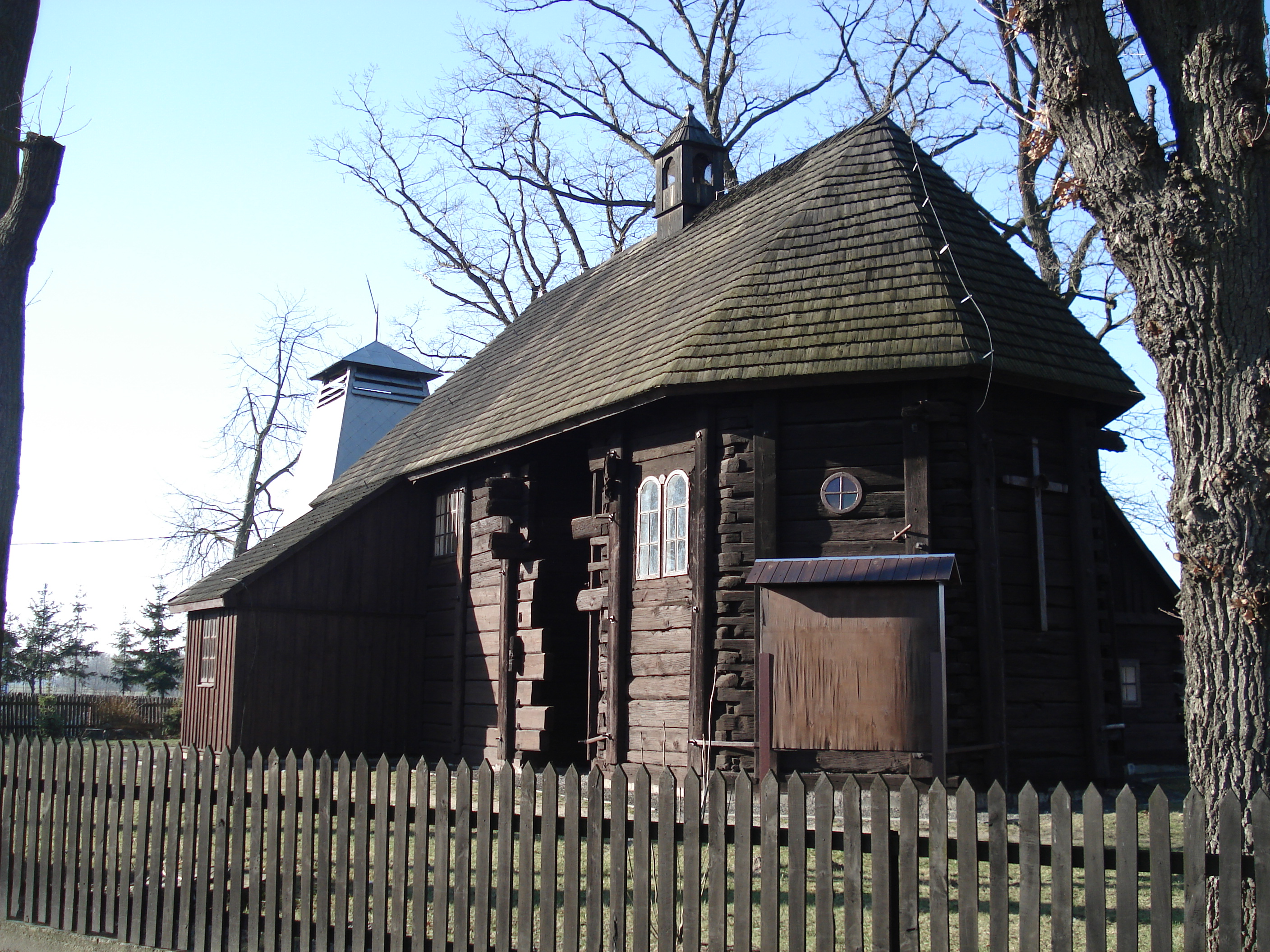 Church of Budzynek (Poland)